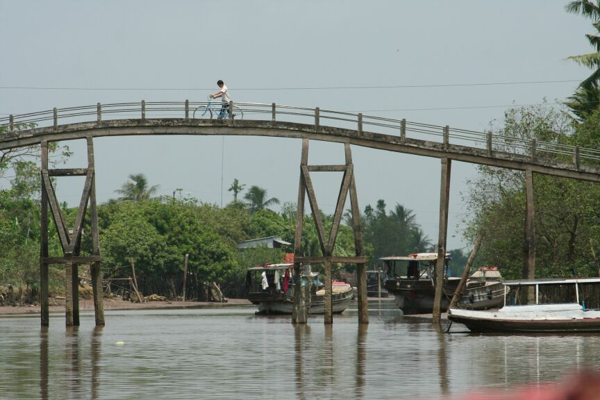 Narrow bridge over canals at An Binh Island near Vinh Long in the Mekong Delta. Photo taken 28 Feb 2007, on Canon handheld camera. Released to Public domain Mar 8 07.